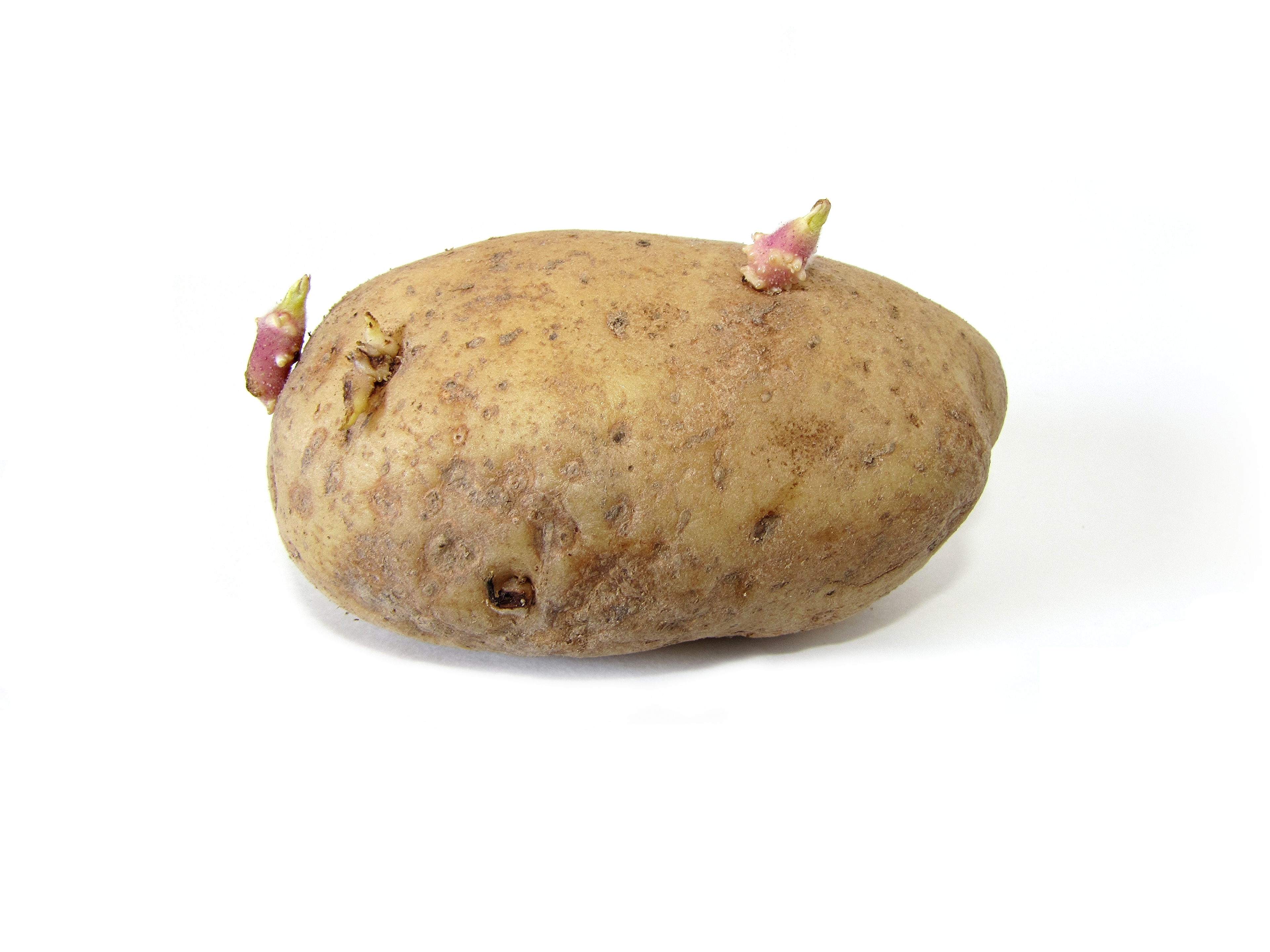 Potato with sprouts. Russet variety. About 10 centimeters (4 inches) in length.